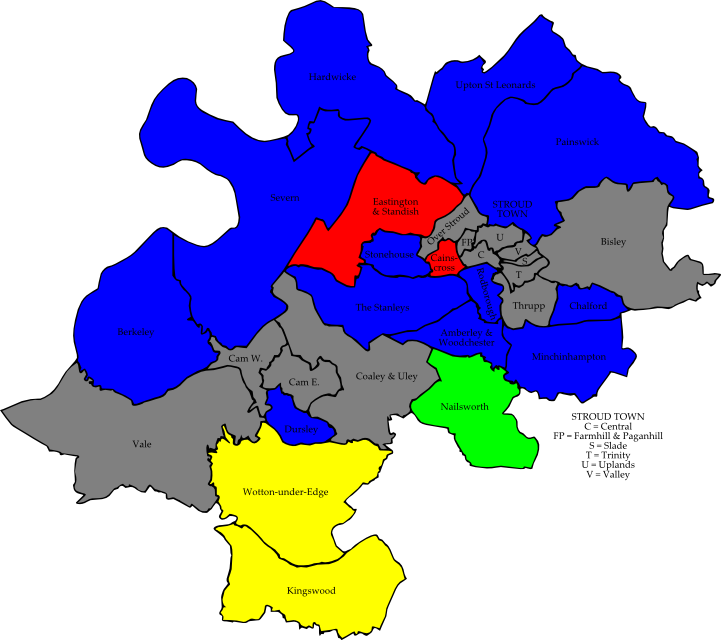 A map of the results of the 2008 Stroud Council election. Colour legend by wards won: Conservative party Labour party Liberal Democrats Green party Wards in grey were not contested in 2008.